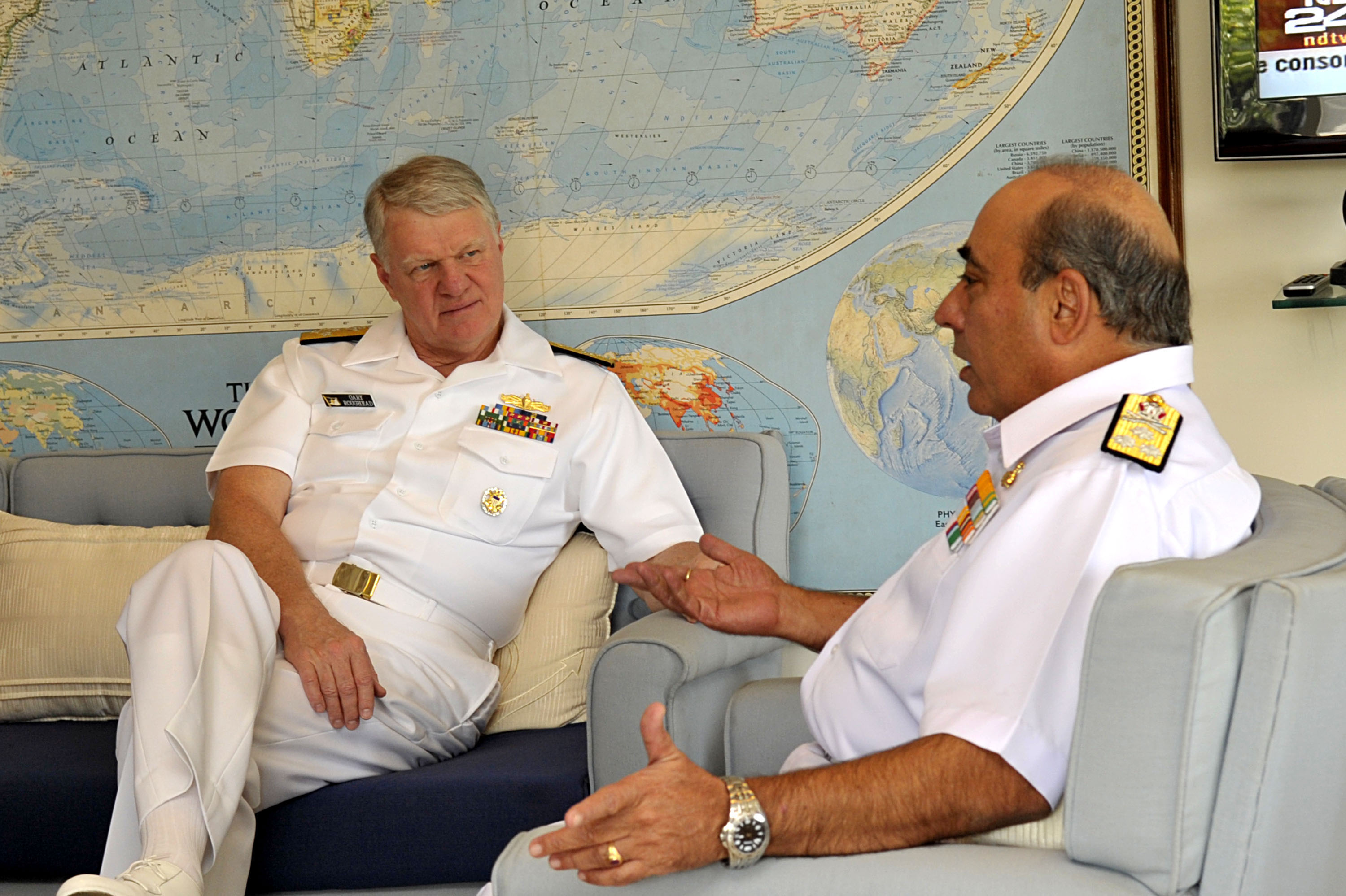 MUMBAI, India (April 13, 2010) Chief of Naval Operations (CNO) Adm. Gary Roughead meets with Vice Adm. Sanjeev Bhasin, flag officer commanding-in-chief of Western Naval Command in Mumbai, India. (U.S. Navy photo by Mass Communication Specialist 1st Class Tiffini Jones Vanderwyst/Released)